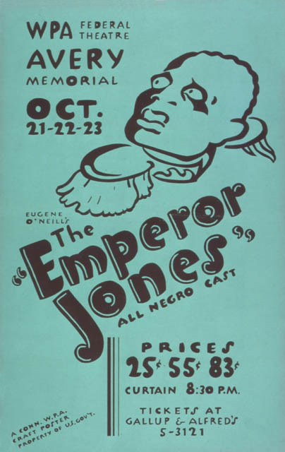 Title: The Emperor Jones Creator: Eugene O'Neill, , 1888-1953 Other Contributors: Federal Art Project, sponsor Federal Theatre Project (U.S.), sponsor United States. Work Projects Administration, sponsor Catalog No.: F9-6A-1 Date Created: 1937-10 Date Issued: 2002-12-19 Subjects: Theatrical posters, American DOC Collection(s): Federal Theatre Project Poster, Costume, and Set Design Slides Collection Web Site: Links for viewing/playing this object: Digital Collection Web site: Multi-page image viewer: Display Files: Web display version: F9-6A-1display.jpg (image/jpeg) 53419 bytes